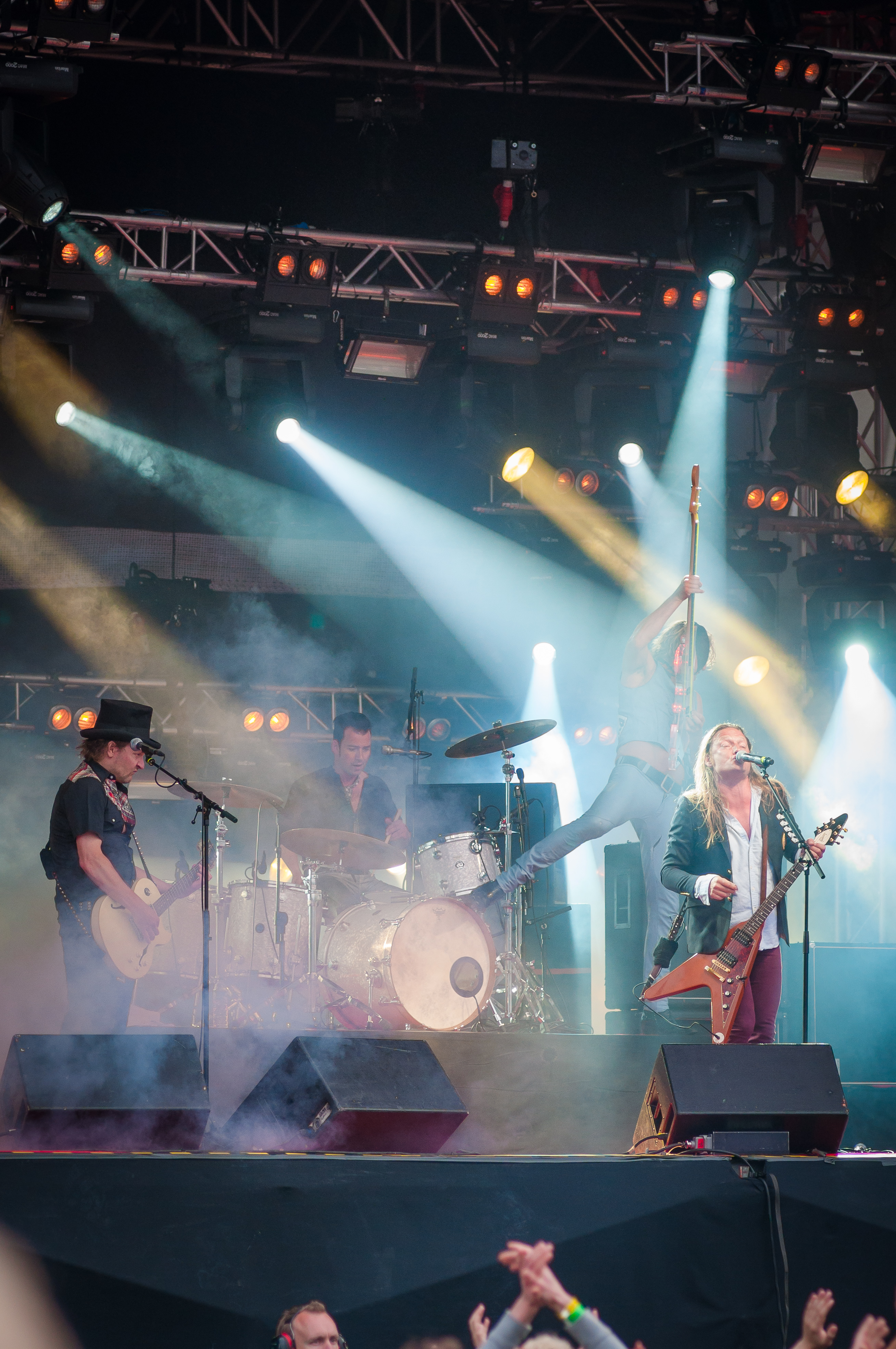 Danish rock band D-A-D performing at the 2012 Ilosaarirock festival in Joensuu, Finland.